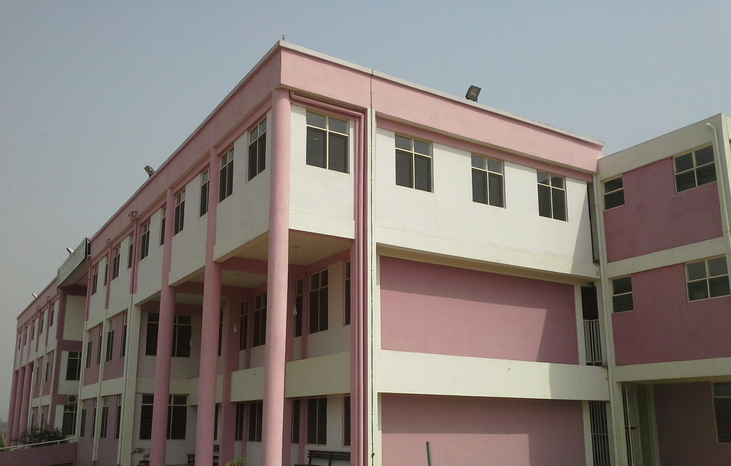 School of Engineering at All Nations University, Koforidua, New Site.